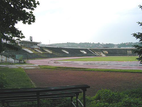 Ancient Ion Moina Stadium in Cluj, Romania, replaced by Cluj Arena in 2011.